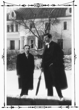 Yuri Khanon & Alexander Scriabin (Saint-Petersburg, 1902) frontispiece of book "Scriabin comme Face"